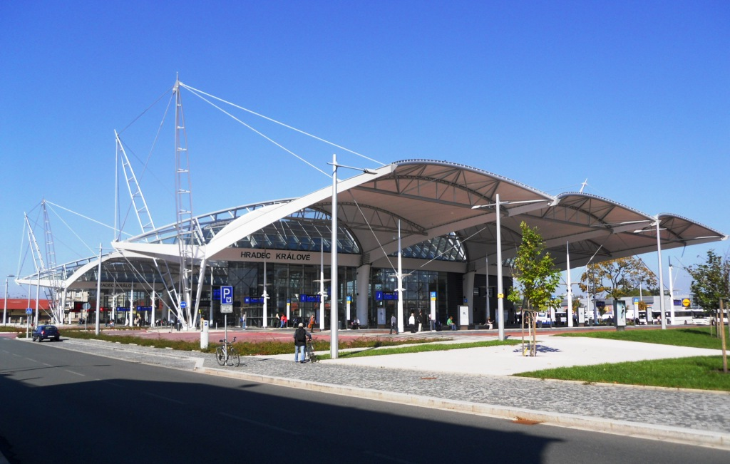 Hradec Králové, bus station (P. Kotas, 2008)